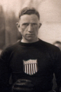 American ice hockey player Edward Fitzgerald representing the US national ice hockey team at the 1920 Summer Olympics in Antwerp, Belgium. The picture is a crop out of a larger team photo taken inside the ice rink Palais de Glace d'Anvers. The ice hockey tournament at the 1920 Summer Olympics took place between April 23 and April 29. The american team won silver medals at the games